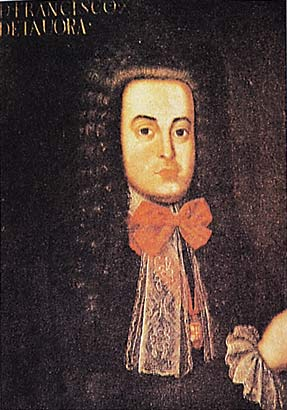 Francisco de Assis de Távora (1703-1759), Marquis of Távora, Count of Alvor and Count of São João da Pesqueira, Portuguese nobleman, viceroy of Portuguese India, and one of the victims of the infamous "Távora affair".